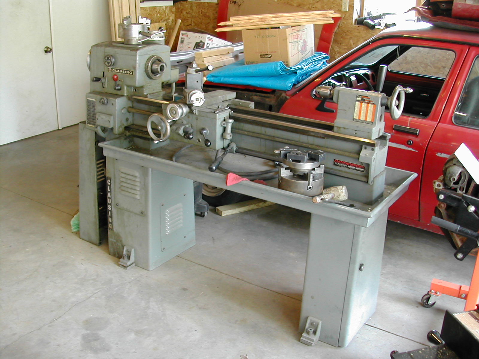 This is my Clausing model 5912 engine lathe. I bought it used from a seller in SE New Hampshire in 2003. I brought it back here to Northern New York. 12.25-inch swing, 36-inches between centers. It was originally equipped with a 1HP three-phase motor and a hydraulically-controlled variable-speed spindle drive. I am replacing the original drive and motor with a new three-phase 7.5HP direct-drive motor and a 480V VFD (Variable Frequency Drive). I don't have three-phase power here. That's why I bought the VFD, which can take a 480V single phase input and synthesize a 480V three-phase output to the motor. To make 480V power, I have a large 240V/480V single-phase transformer. I think it's 10KVA or 15KVA.